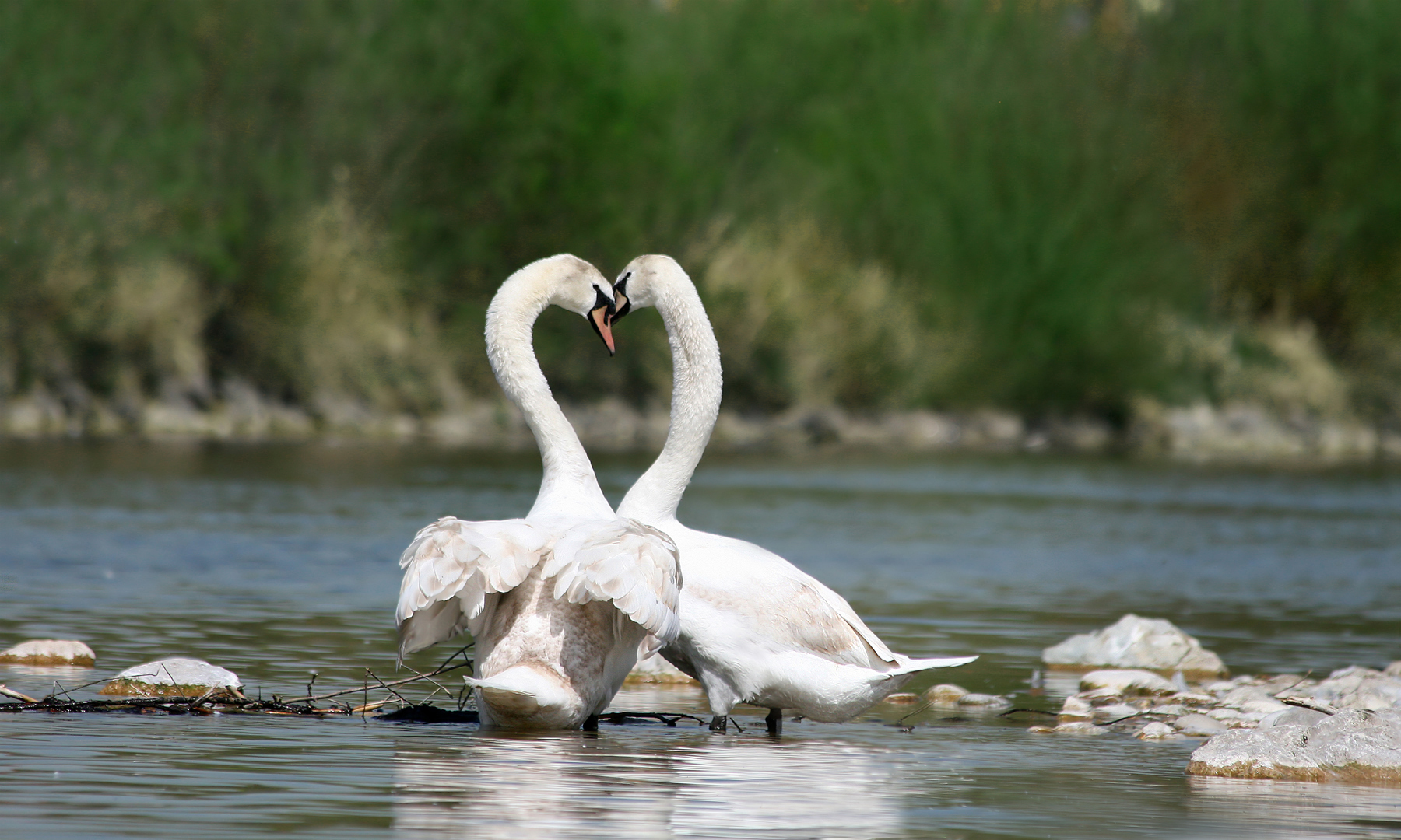 The Mute Swan (Cygnus olor[1]) is a common Eurasian member of the duck, goose and swan family Anatidae.